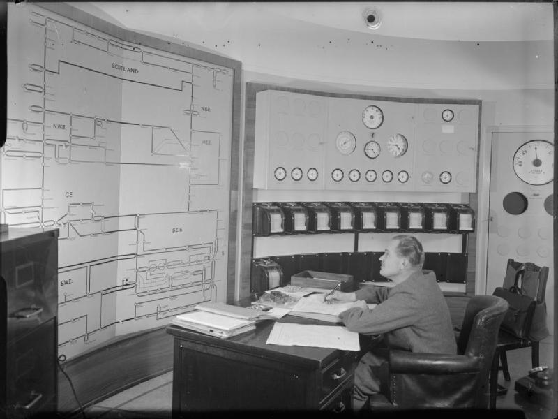 The British Grid System- the work of the Central Electricity Board in Wartime, c March 1945 A controller at work in the central electricity control room. On the left is a system diagram showing the electrical system for the whole of Great Britain, ranging from Scotland at the top, through 'NWE' (North West England), 'CE' (Central England) and 'SWE' (South West England), amongst others. According to the original caption, this control room is well below ground, so safe from any enemy attacks and it is from here that "power can be switched from less heavily loaded areas to vital war industries".